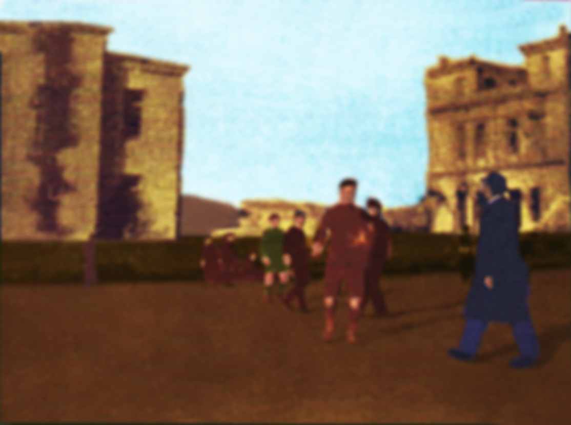 Το πρώτο γήπεδο της ομάδας Παναθηναϊκού Α.Ο. - Ποδοσφαιρικός Όμιλος Αθηνών (Π.Ο.Α.) στην οδό Πατησίων, εκεί που σήμερα βρίσκεται το Οικονομικό Πανεπιστήμιο Αθηνών (πρώην ΑΣΟΕΕ). Δημιουργήθηκε με την πρωτοβουλία του Γιώργου Καλαφάτη και την οικονομική ενίσχυση του Μαρίνου Μαρινάκη.